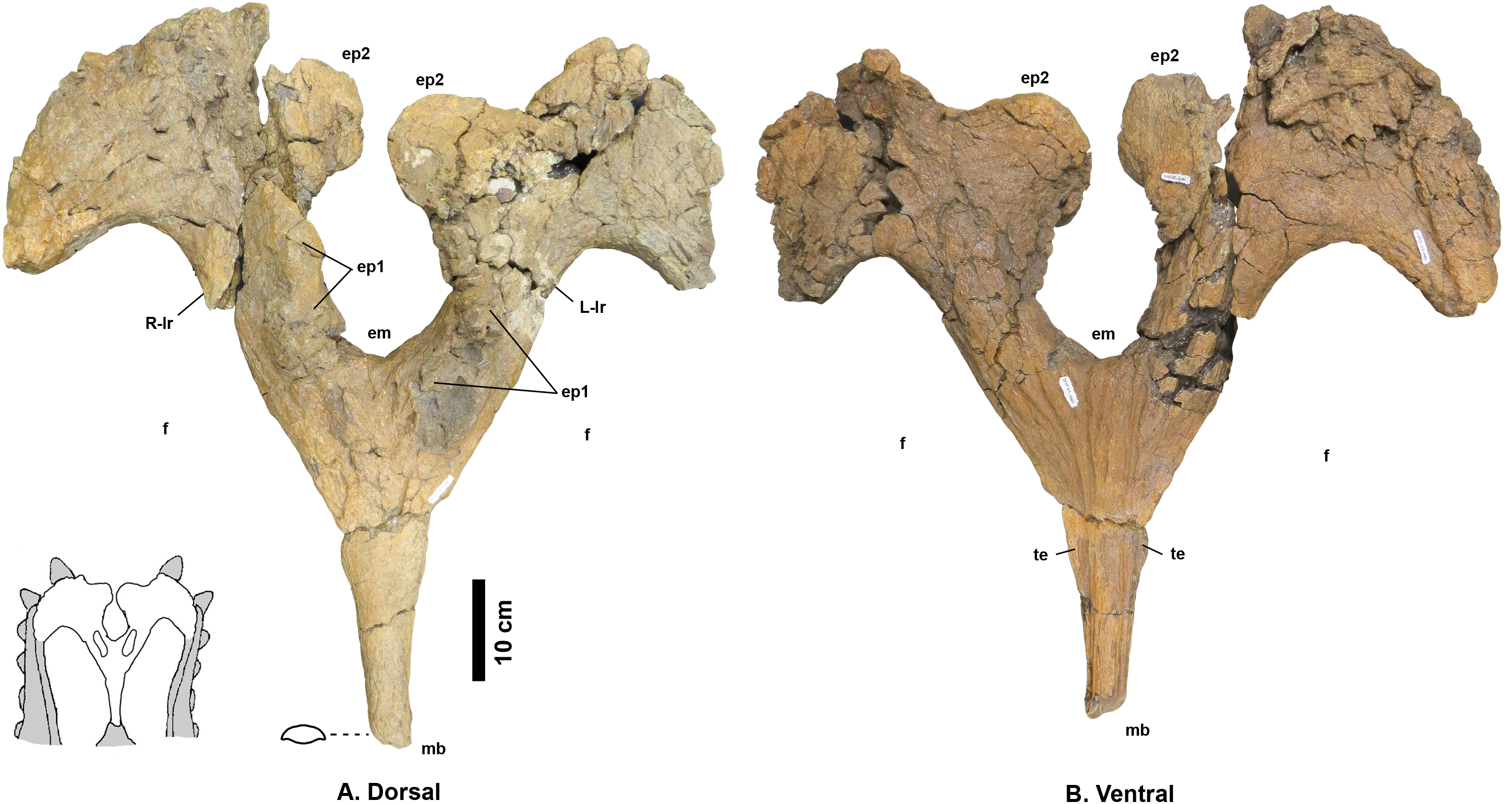 Navajoceratops sullivani holotype SMP VP-1500 parietal. Dorsal (A) and ventral (B) views. Cross section of median bar (mb) illustrated on dorsal view. Ep1 mostly removed during extraction or preparation (see Fig. S4 for original extent). em, median embayment of the posterior bar; ep, epiparietal loci numbered by hypothesized position (no epiossifications are fused to this specimen); f, parietal fenestra; L-lr/R-lr, Left/Right lateral rami of the posterior bar; te, tapering lateral edges of the median bar. Scalebar = 10 cm. Reconstruction adapted from Lehman (1998).